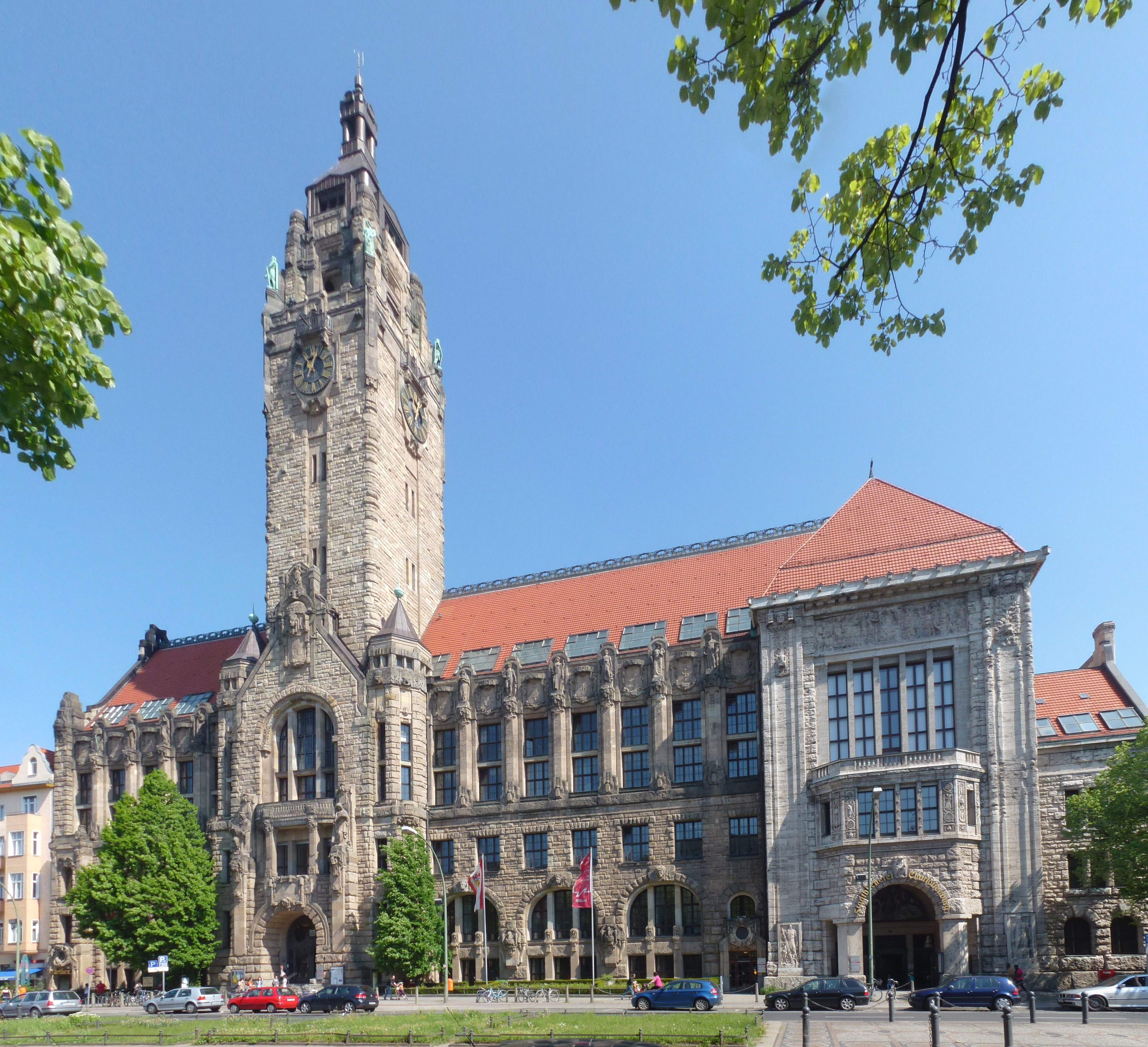 Charlottenburg Otto-Suhr-Allee Rathaus Charlottenburg